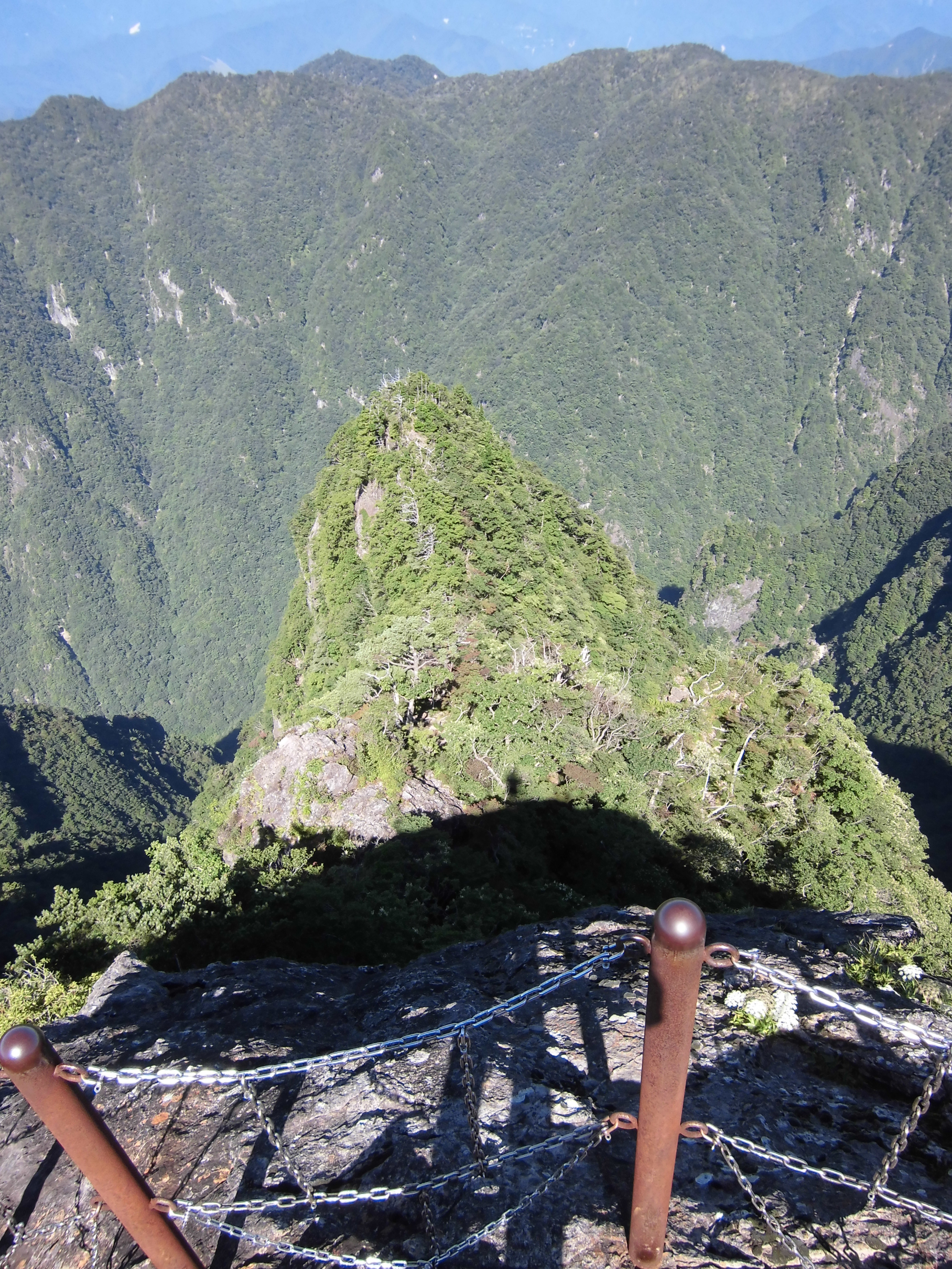 View from Daijagura in Mount Odaigahara